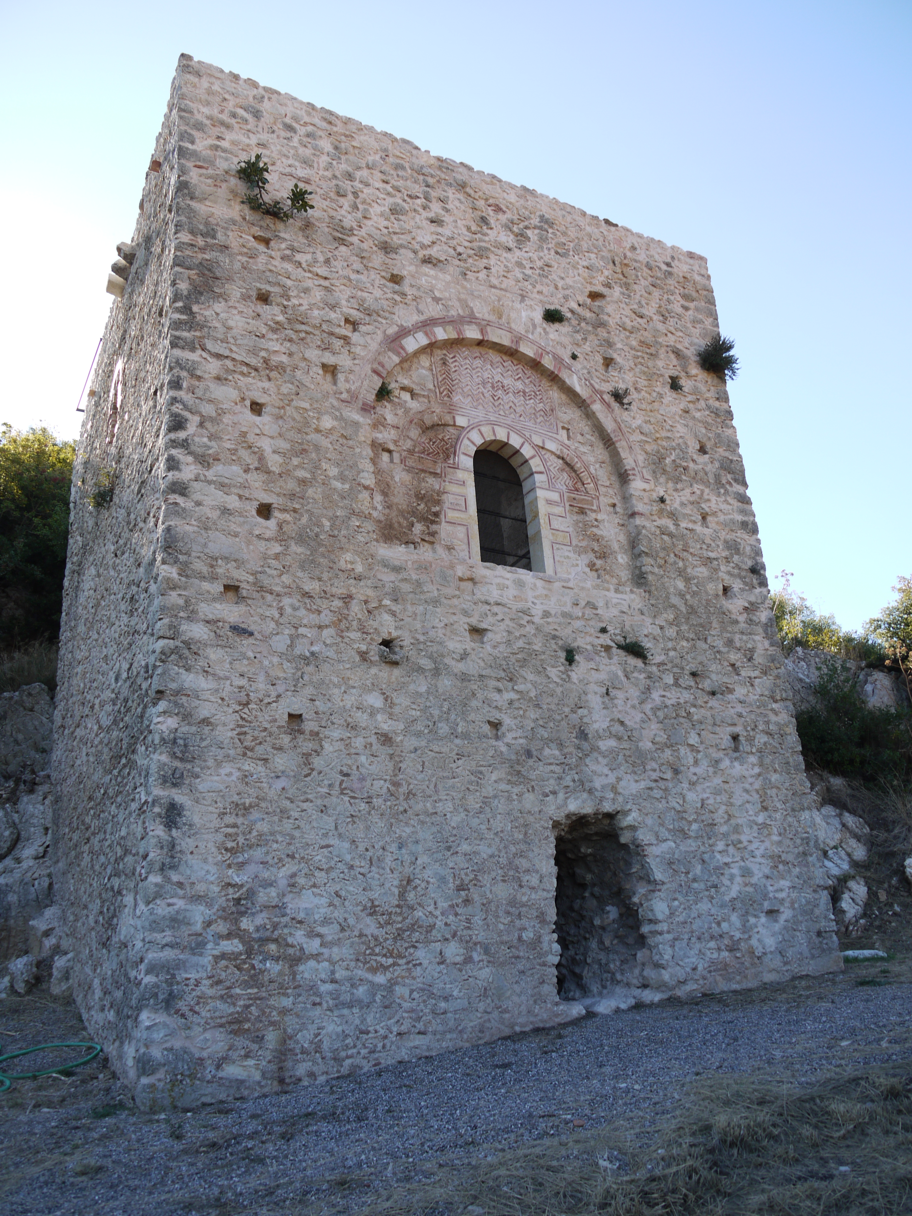 Tower-house of Matzouranogiannis outisde the Karytaina Castle